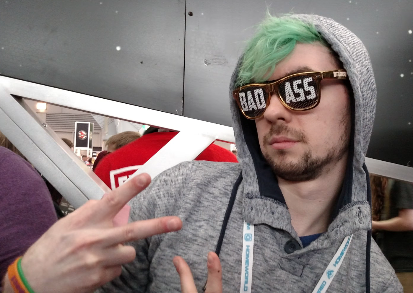 Popular Youtuber Jacksepticeye at PAX 2016.